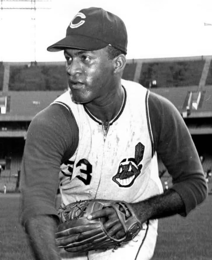 Professional baseball player Luis Tiant